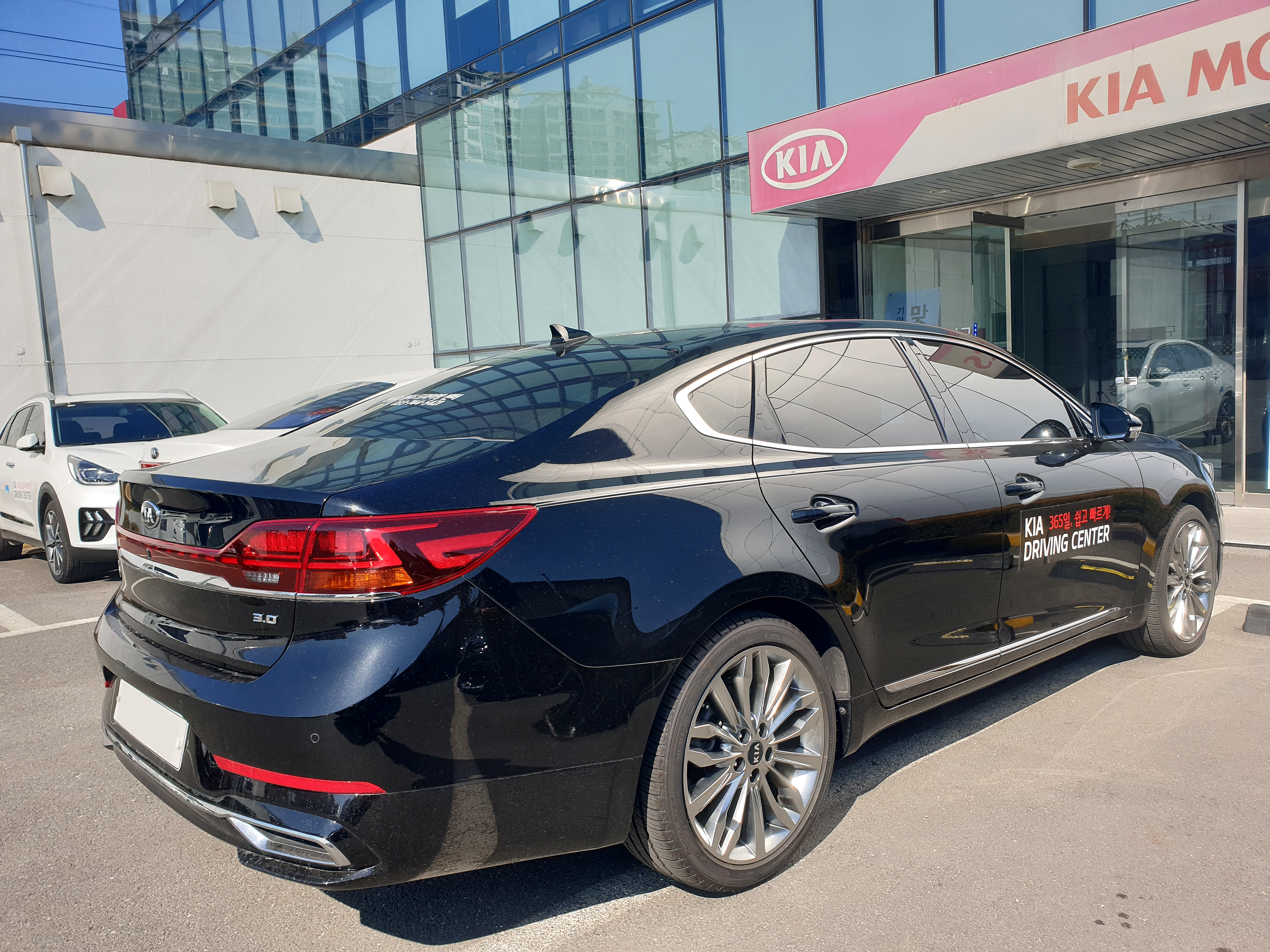 KIA K7 Premier Rear Side